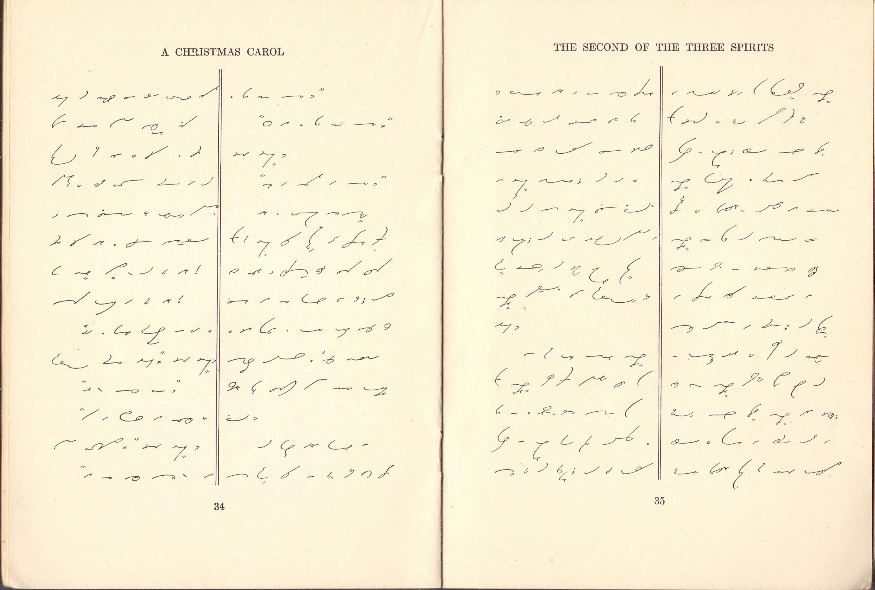 A Christmas Carol - 1st Ed - Printed in Gregg Shorthand (1918) Sample of text from the book, original description below: Here is the first Gregg Shorthand version of A Christmas Carol. It was published in 1918. It matches the 1916 Gregg Shorthand Manual. The same plates by Winifred Kenna were used in "Short Classics in Shorthand" (1927), which featured five short novels. This version is heavily abridged, including shorthand for approximately 20% of the English novel.